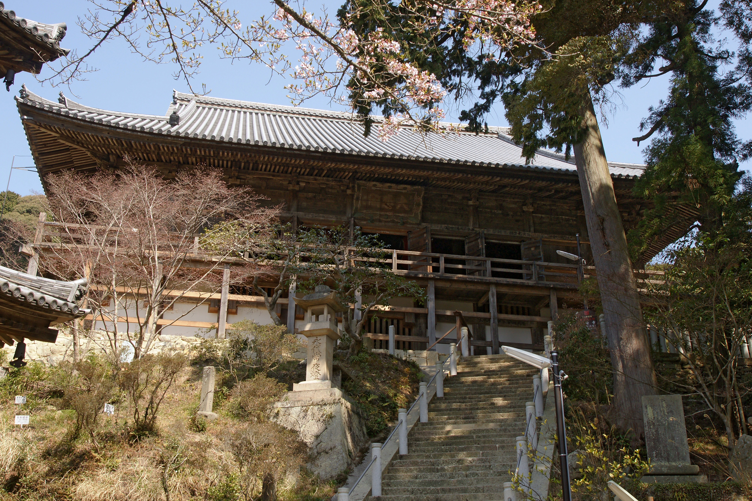 The Main Hall "Daihikaku" of Ichijō-ji in Kasai, Hyogo prefecture, Japan